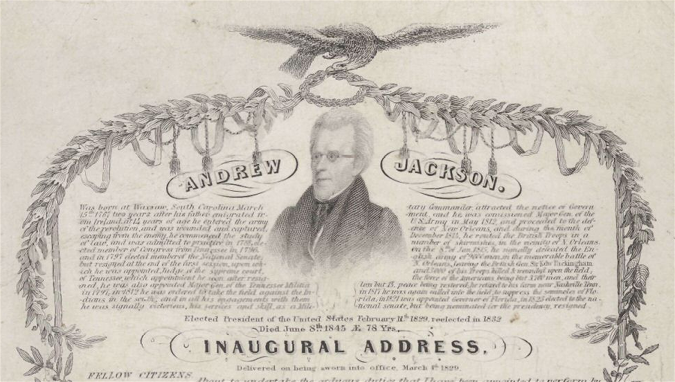 Andrew Jackson. Inaugural address, delivered on being sworn into office, March 4th 1829. Published by N. Dearborn, Boston.